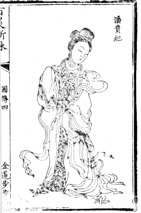 Pan Guifei, also known as Pan Yunu or Pan Yu'er, from the 18th century work Hundred Poems of Beautiful Women (Bai Mei Xin Yong Tu Zhuan 百美新詠圖傳) by Yan Xiyuan (颜希源). Woodblock print of drawing by Wang Hui 王翙